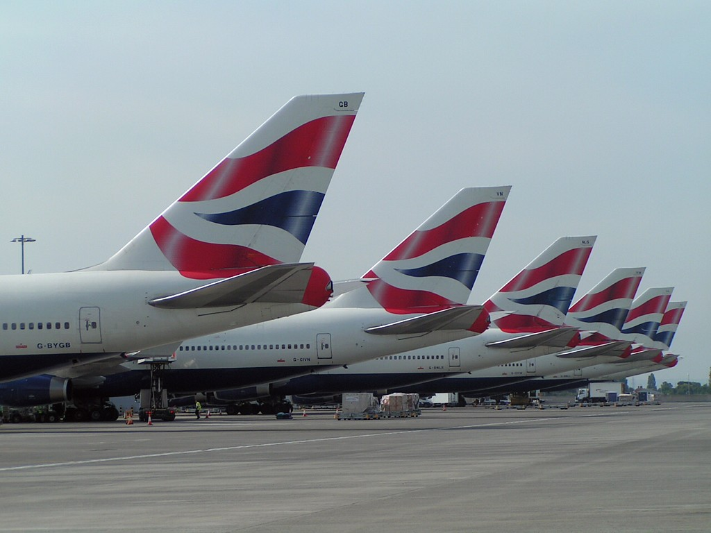 BA 747's on T5B stands,being prepped for next flight.